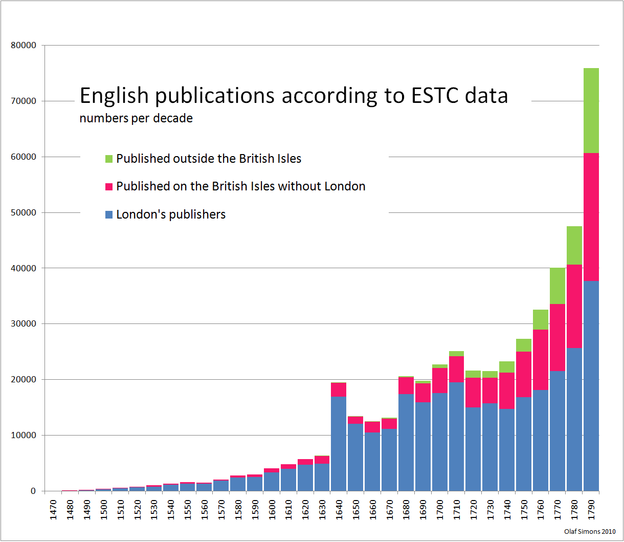 English Short Title Catalogue title count, numbers of titles per decade 1477-1799. See Olaf Simons, The English market of books: title statistics and a comparison with German data, at Critical Threads (2013) for data and details.